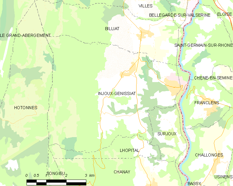 Map of French commune: Injoux-Génissiat Map commune FR insee code 01189.png